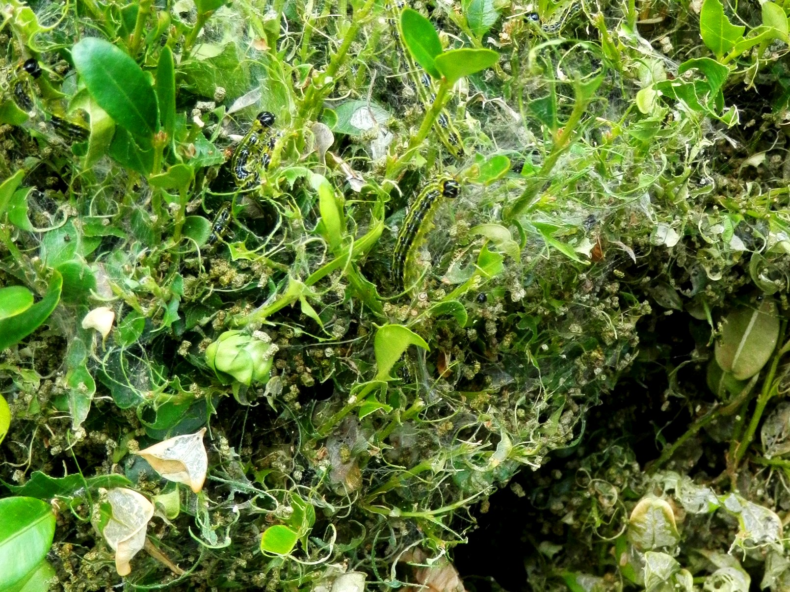 Box tree moth (Cydalima perspectalis) larval feeding damage.